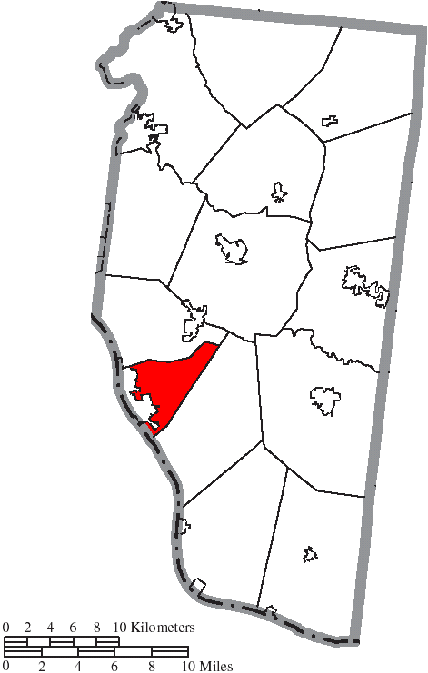 Map of the municipal and township boundaries of Clermont County, Ohio, United States, as of the 2000 census, with the location of Ohio Township highlighted. Township borders are shown only in unincorporated areas in order to differentiate incorporated and unincorporated areas more clearly.